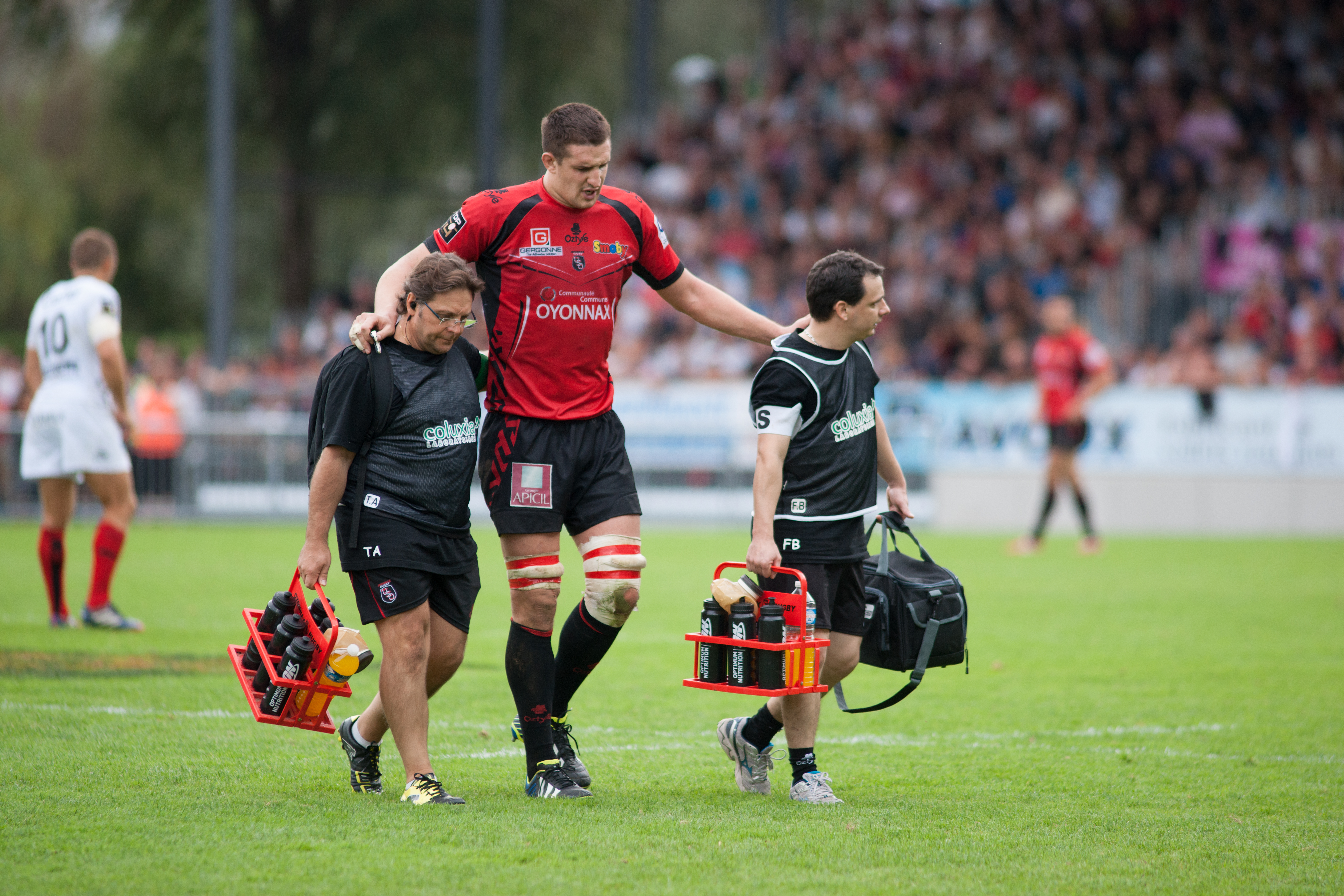 The making of this document was supported by Wikimedia CH. (Submit your project!) For all the files concerned, please see the category Supported by Wikimedia CH. US Oyonnax - Rugby club toulonnais, 28th September 2013